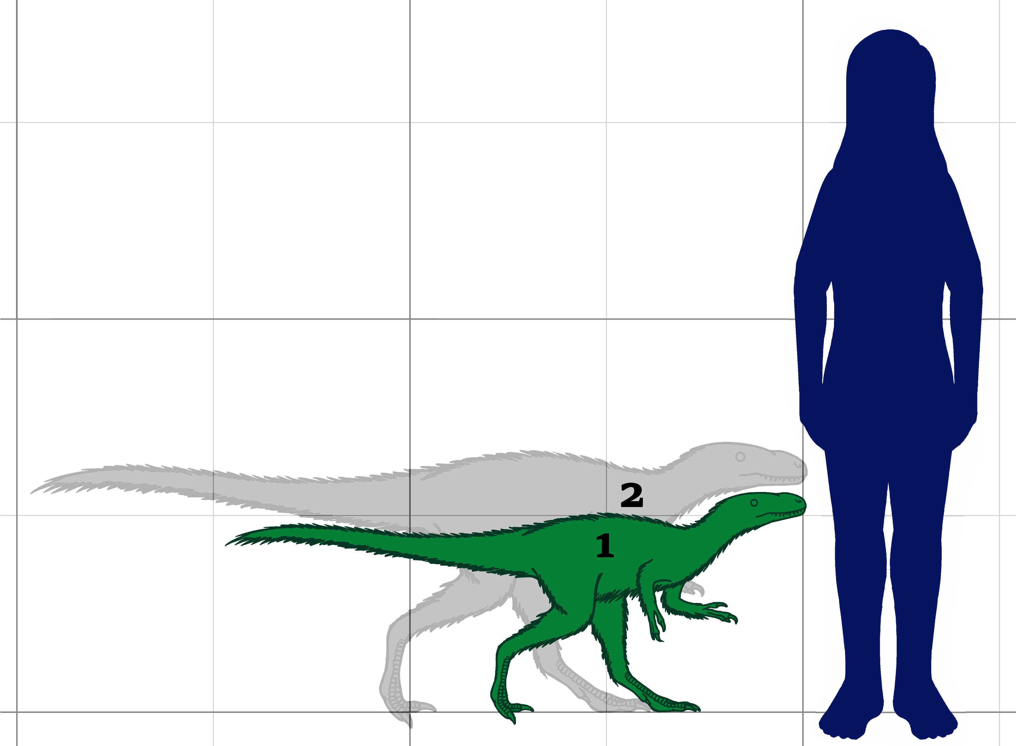 Size comparison between the tyrannossuroid dinosaur Dilong paradoxus and a human. 1. The size of the known specimen. Some scientists believe this is a juvenile, which means an adult likely would been larger. 2. hypothetic size of an adult Dilong. References References to Dilong's skeleton can be seen at [1], [2], [3], [4] and [5].